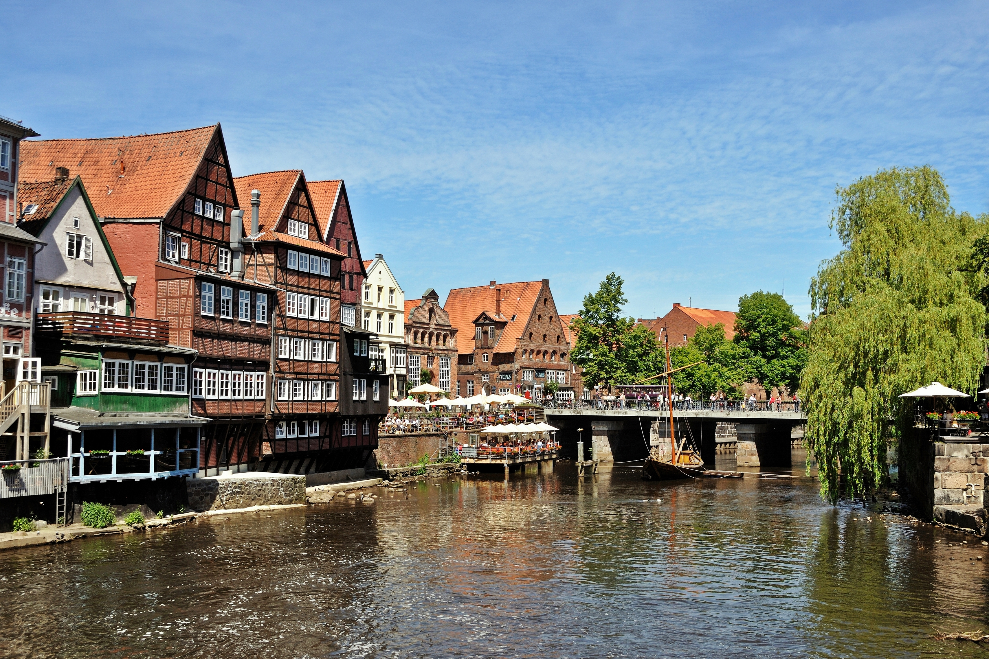 Picture taken in Lüneburg during Skillshare conference showing the old harbour.